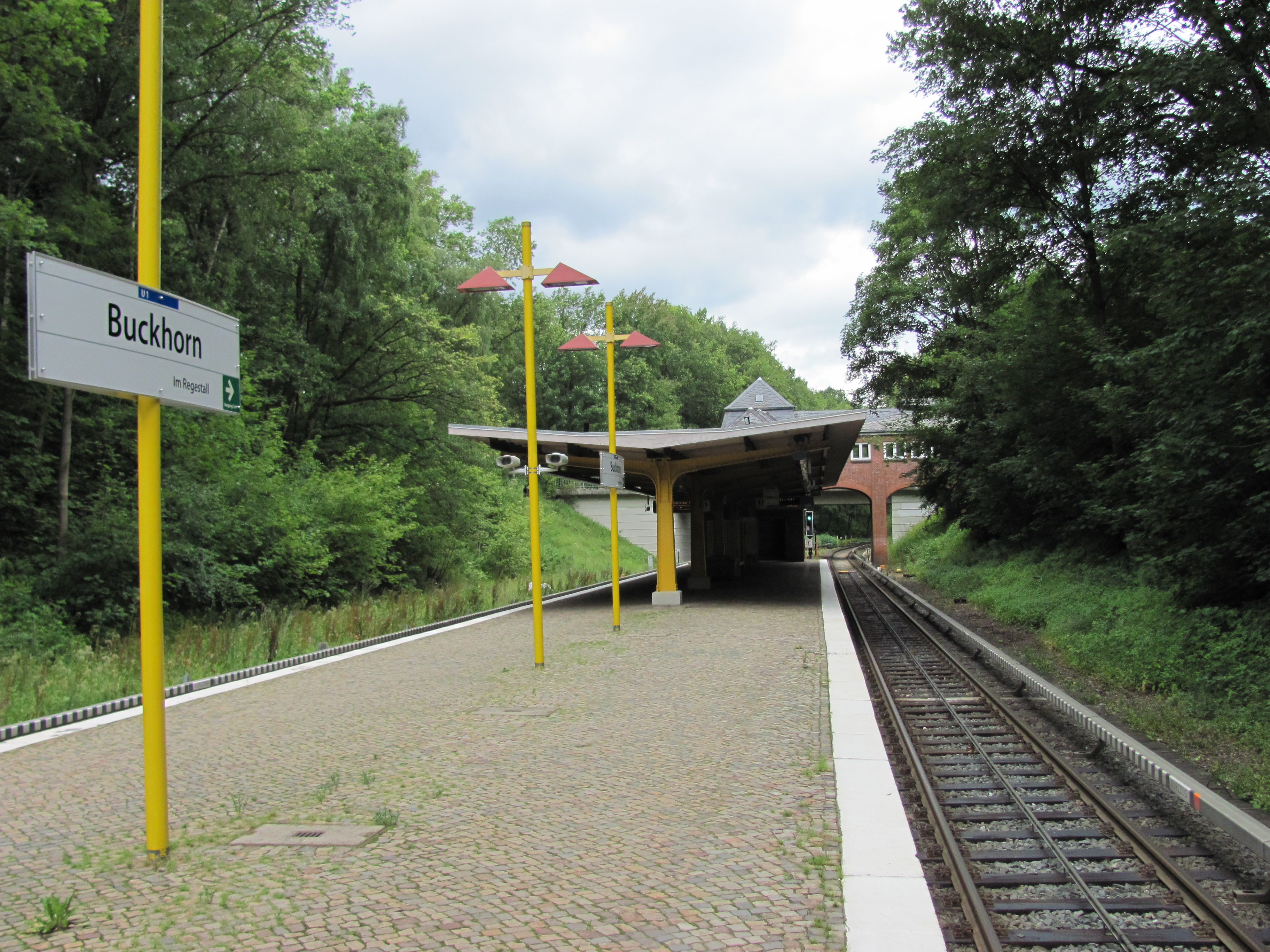 U-Bahn station Buckhorn in Hamburg, Germany